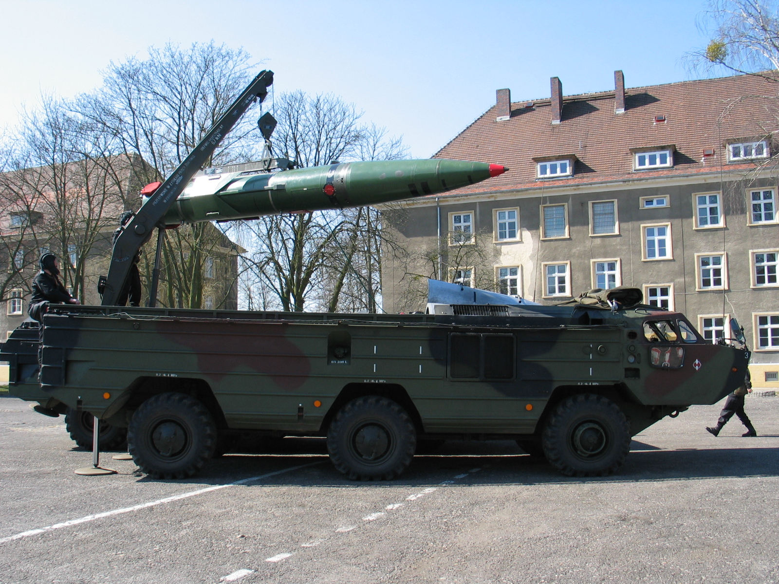 02.04.2005 - demonstration of the fire and technical batteries workings.